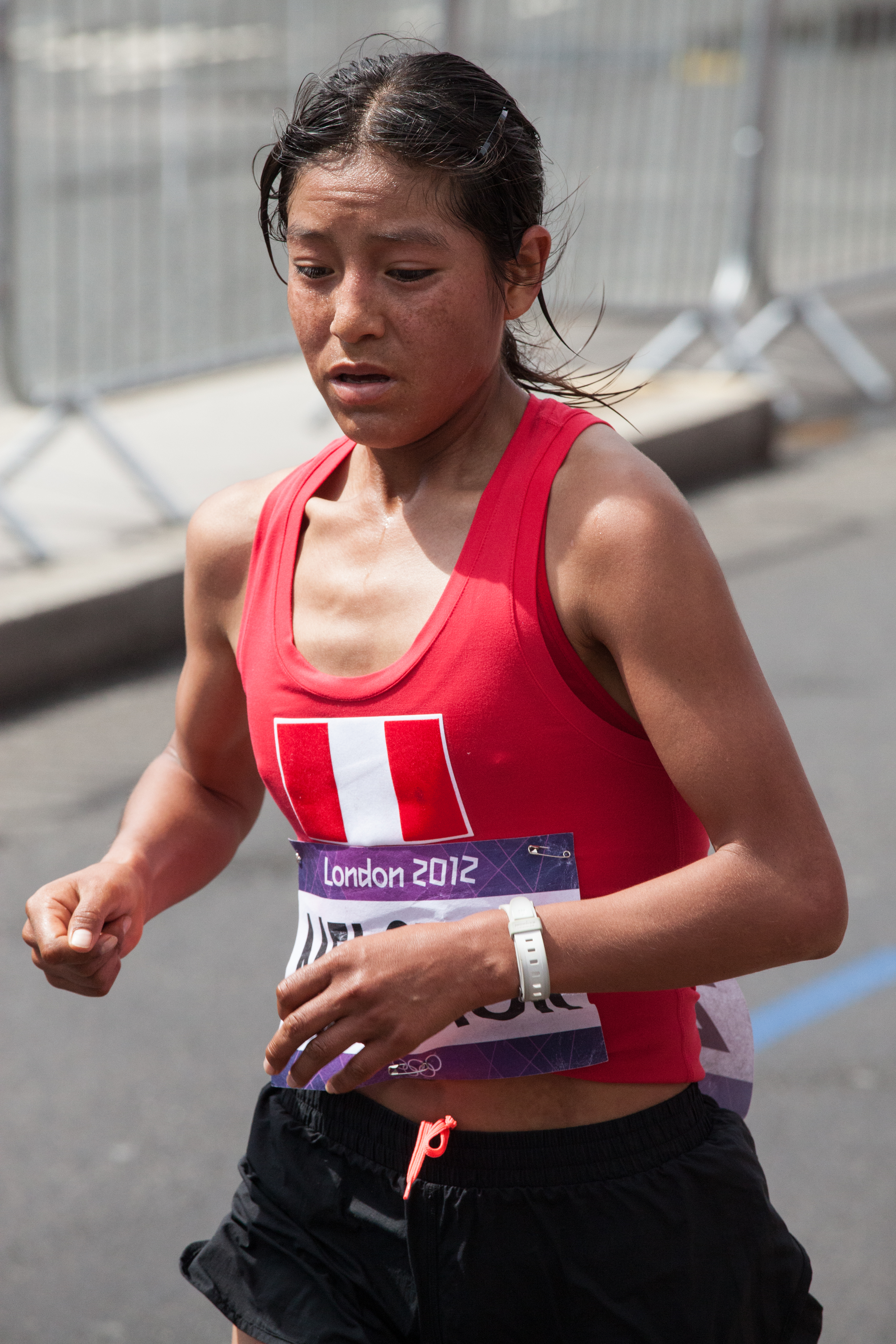 The women's marathon at the 2012 Olympic Games in London was held on the Olympic marathon street course on 5 August 2012.